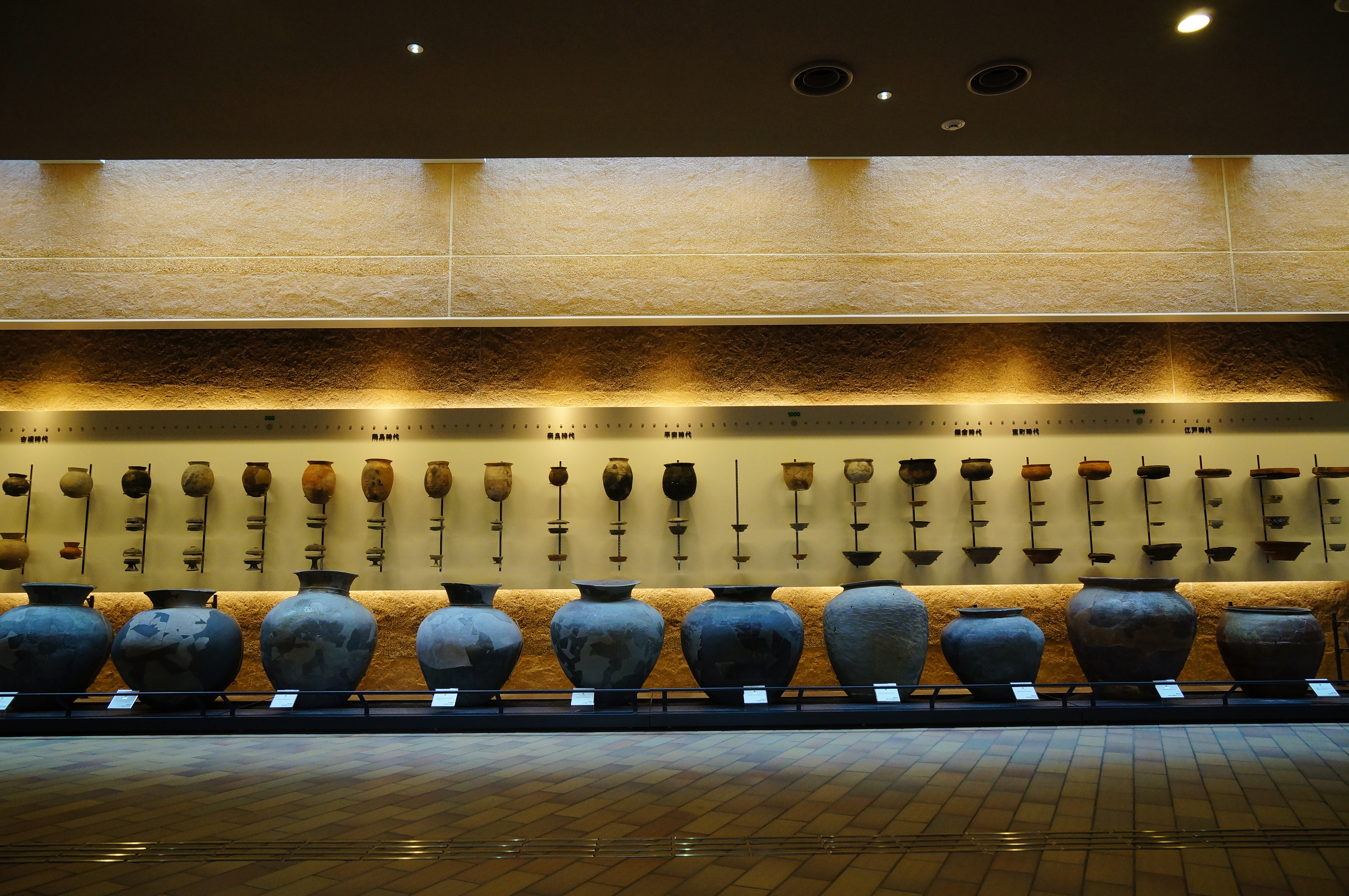 At Hyogo Prefectural Museum of Archaeology in Harima, Hyogo prefecture, Japan.